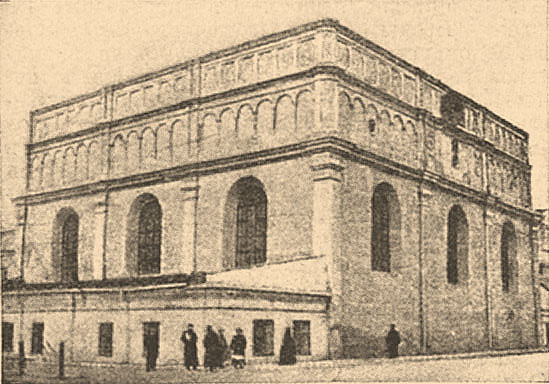 Illustration from Brockhaus and Efron Jewish Encyclopedia (1906—1913)